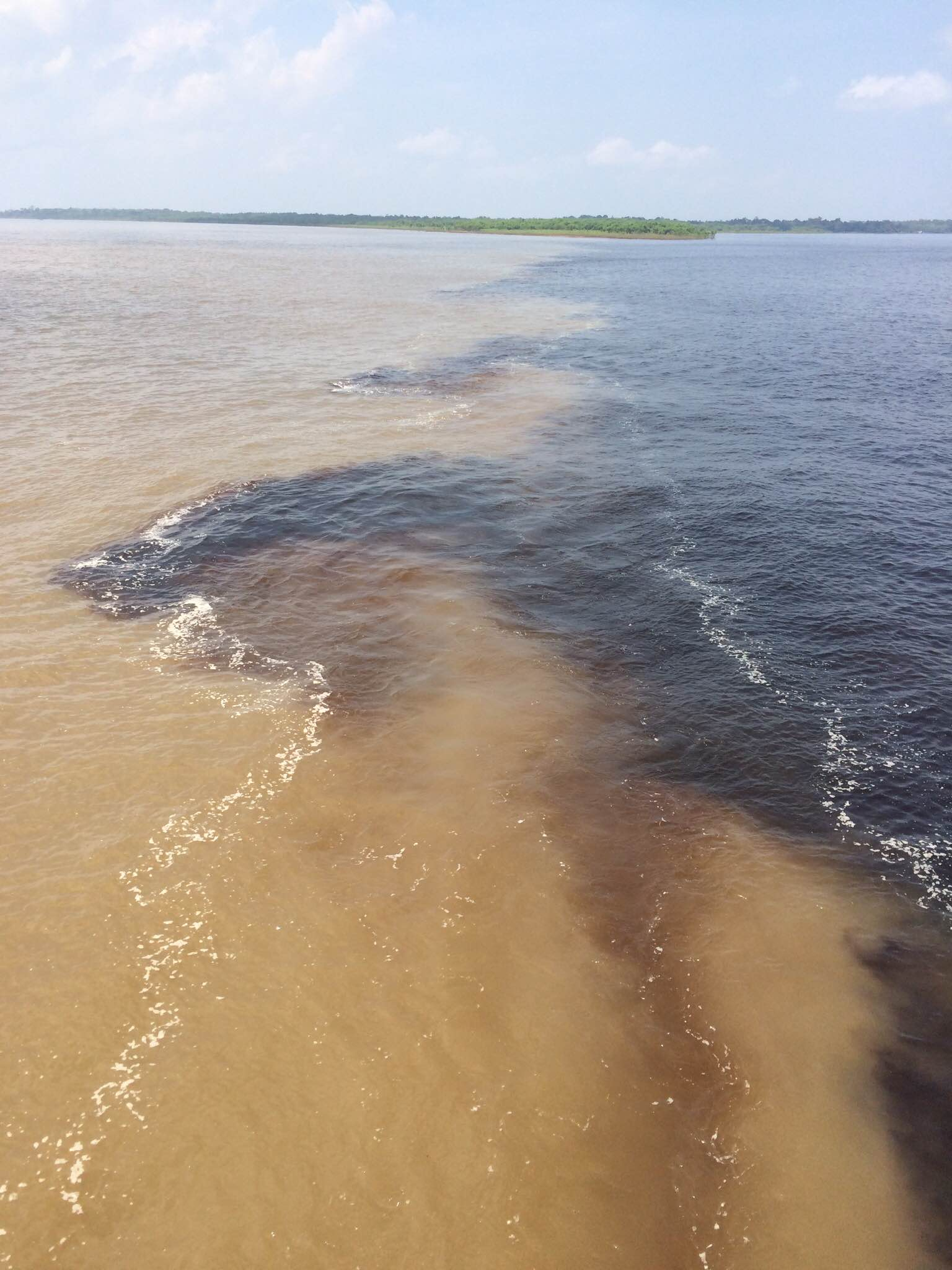 Meeting of the Waters - Rio Solimões and Rio Negro are forming the Amazonas River without properly mixing for kilometers